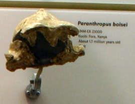 Taken at the David H. Koch Hall of Human Origins at the Smithsonian Natural History Museum.